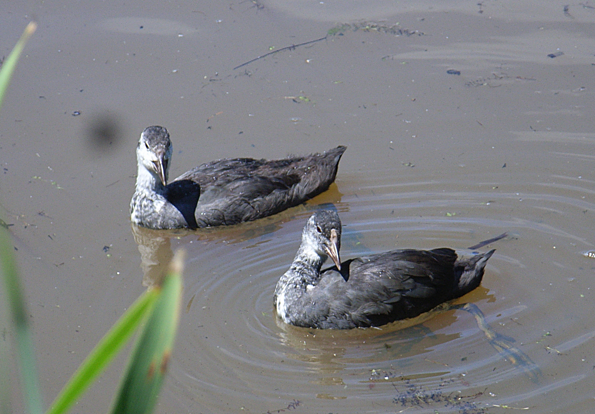 Young birds, Fulica atra